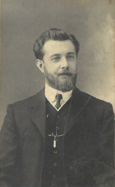 Luís Keil (1881-1947), Portuguese museologist